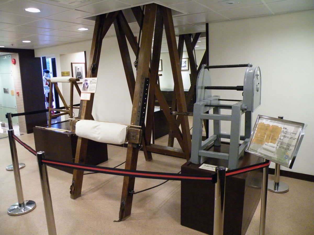 Hong Kong Correctional Services Museum